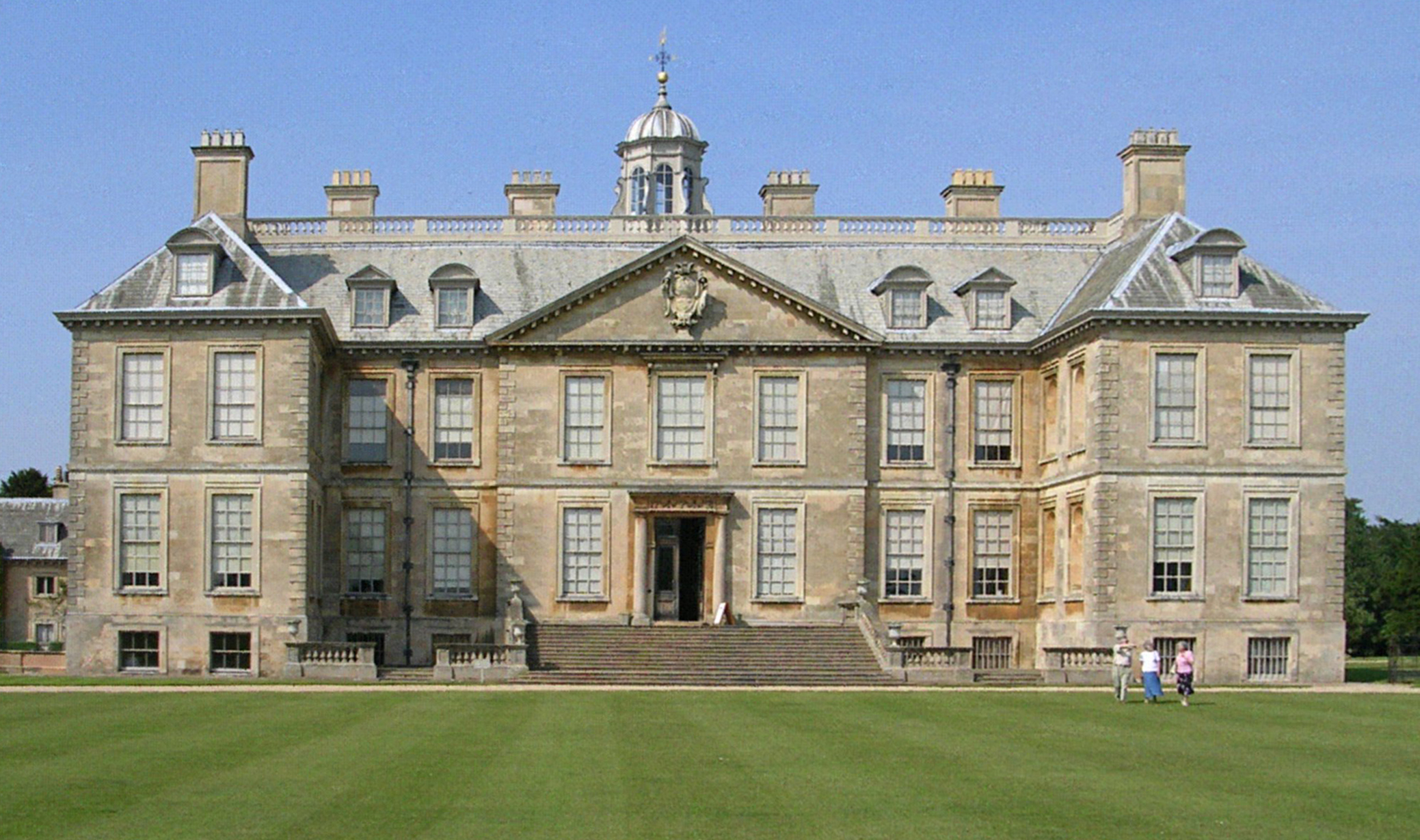 Belton House, England. Photographed by User:Giano June 2006 Licensing NOTE: "subject to disclaimers" below may not actually apply, this was tagged with GFDL-user-en , and after May 2007, Template:GFDL-self did not require disclaimers. Please check the image description page on the English Wikipedia (or, if it has been deleted, ask an English Wikipedia administrator). See Wikipedia:GFDL standardization for details. Giano at the English language Wikipedia, the copyright holder of this work, hereby publishes it under the following license: Attribution: Giano at the English language Wikipedia